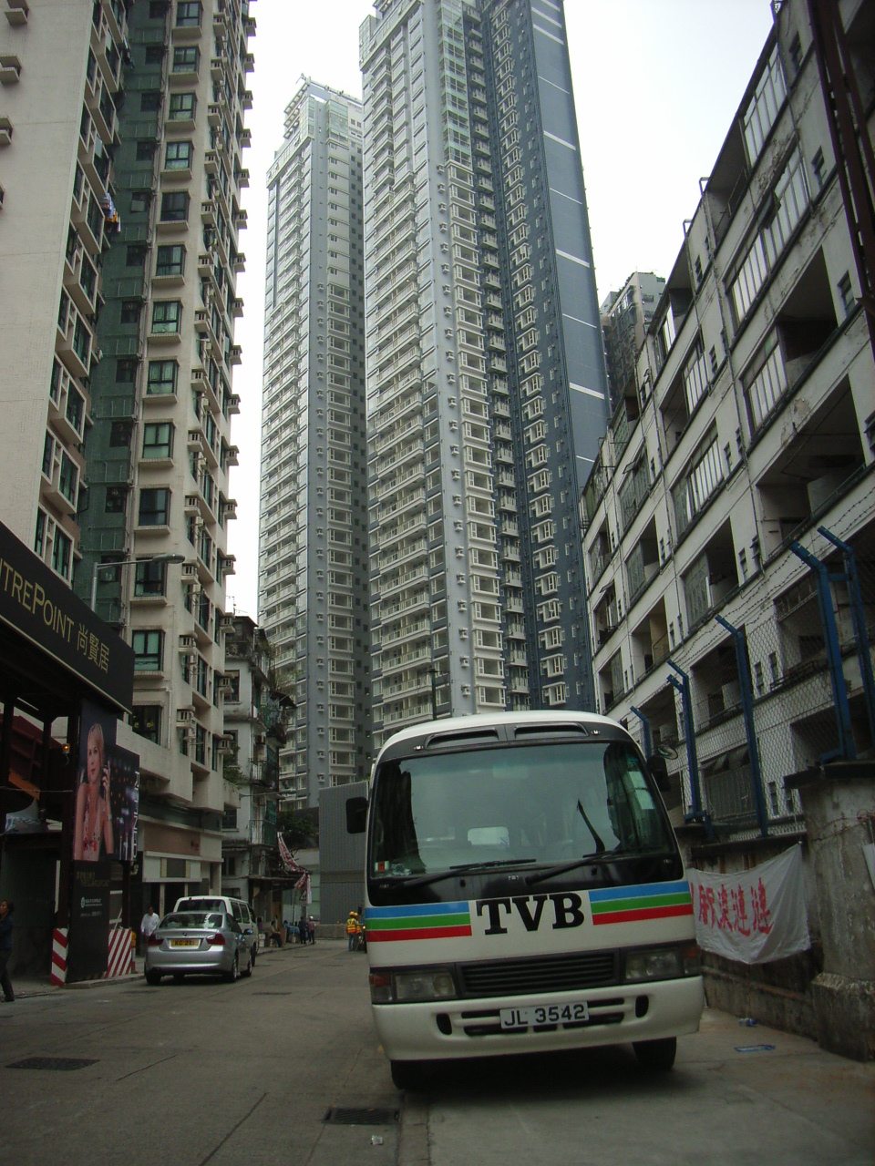 Viewing from Aberdeen Street, Hong Kong: Hollywood Road Police R & F Married Quarters, CenterStage and a property developing site named CentrePoint.